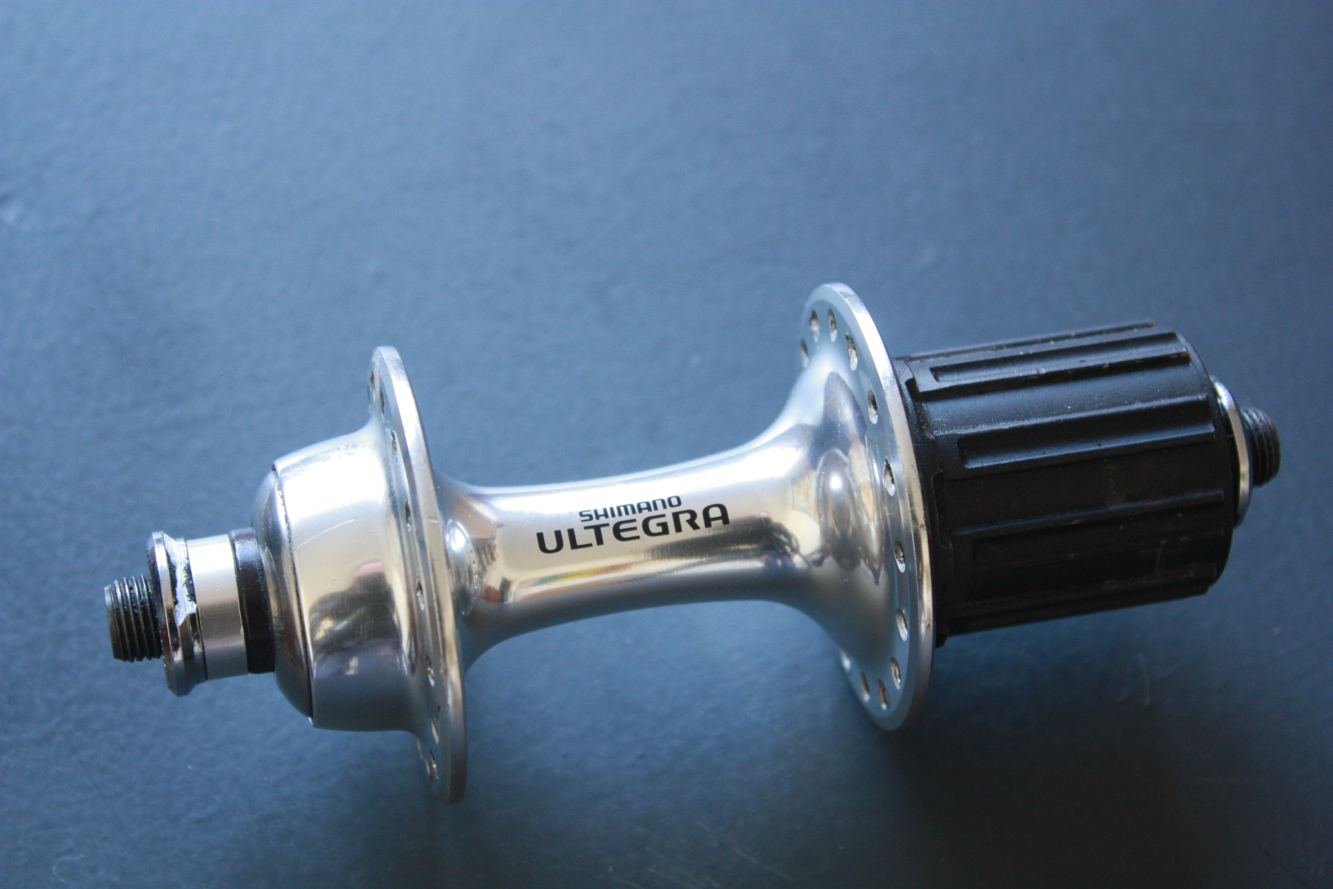 Shimano Ultegra Rear Hub CS-6500